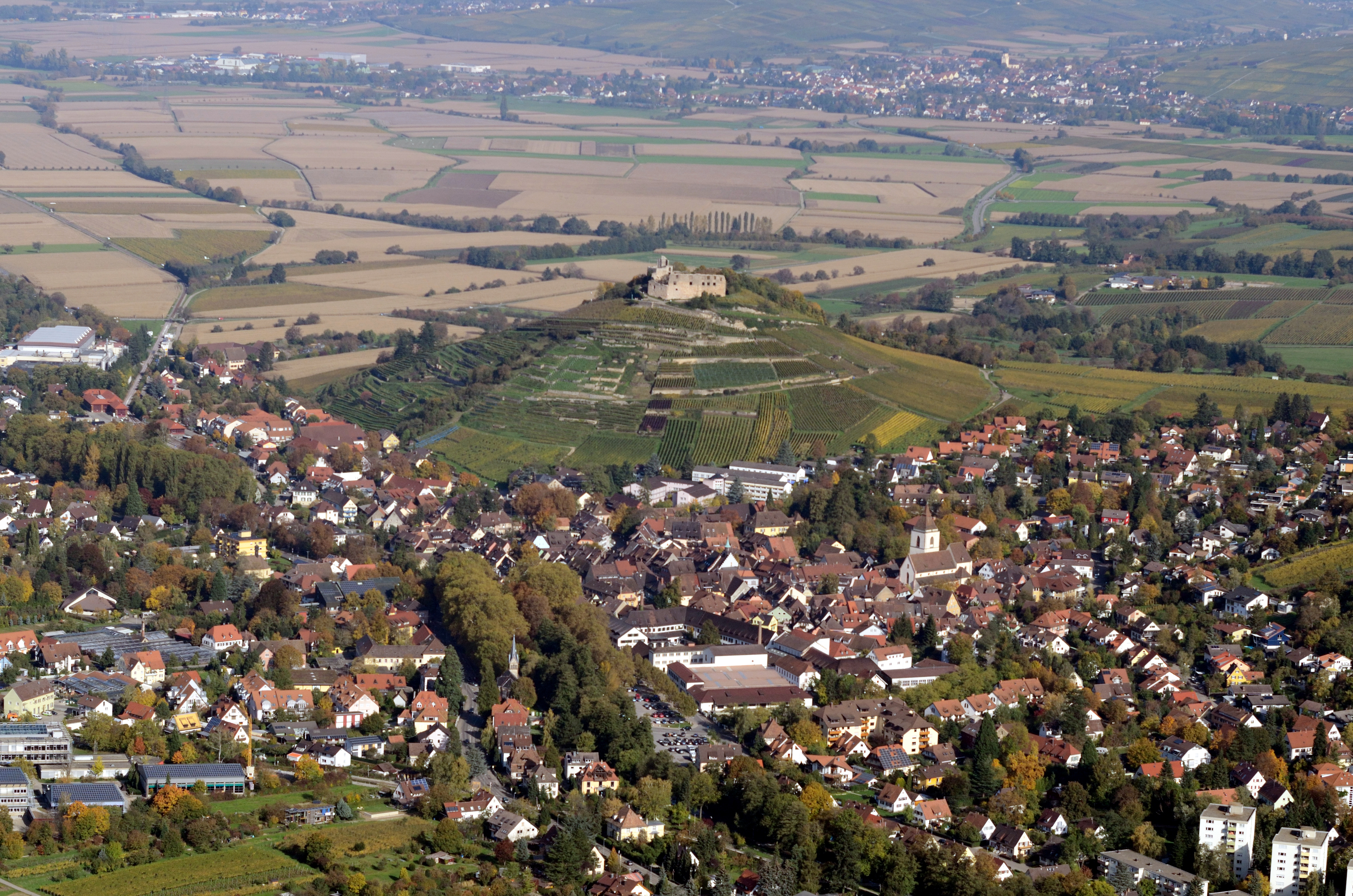 Aerial view at Staufen/ Breisgau